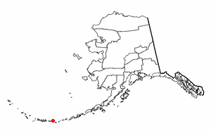 Adapted from Wikipedia's AK borough maps by Seth Ilys.